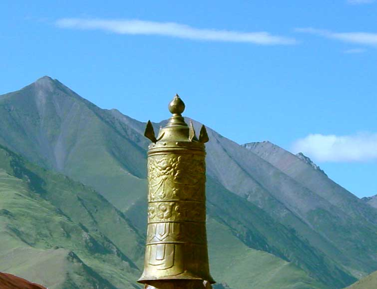 Author and photography: Kosi Gramatikoff (Tibet 2005), Dhvaja (Victory banner), Roof of Sanga Monastery.